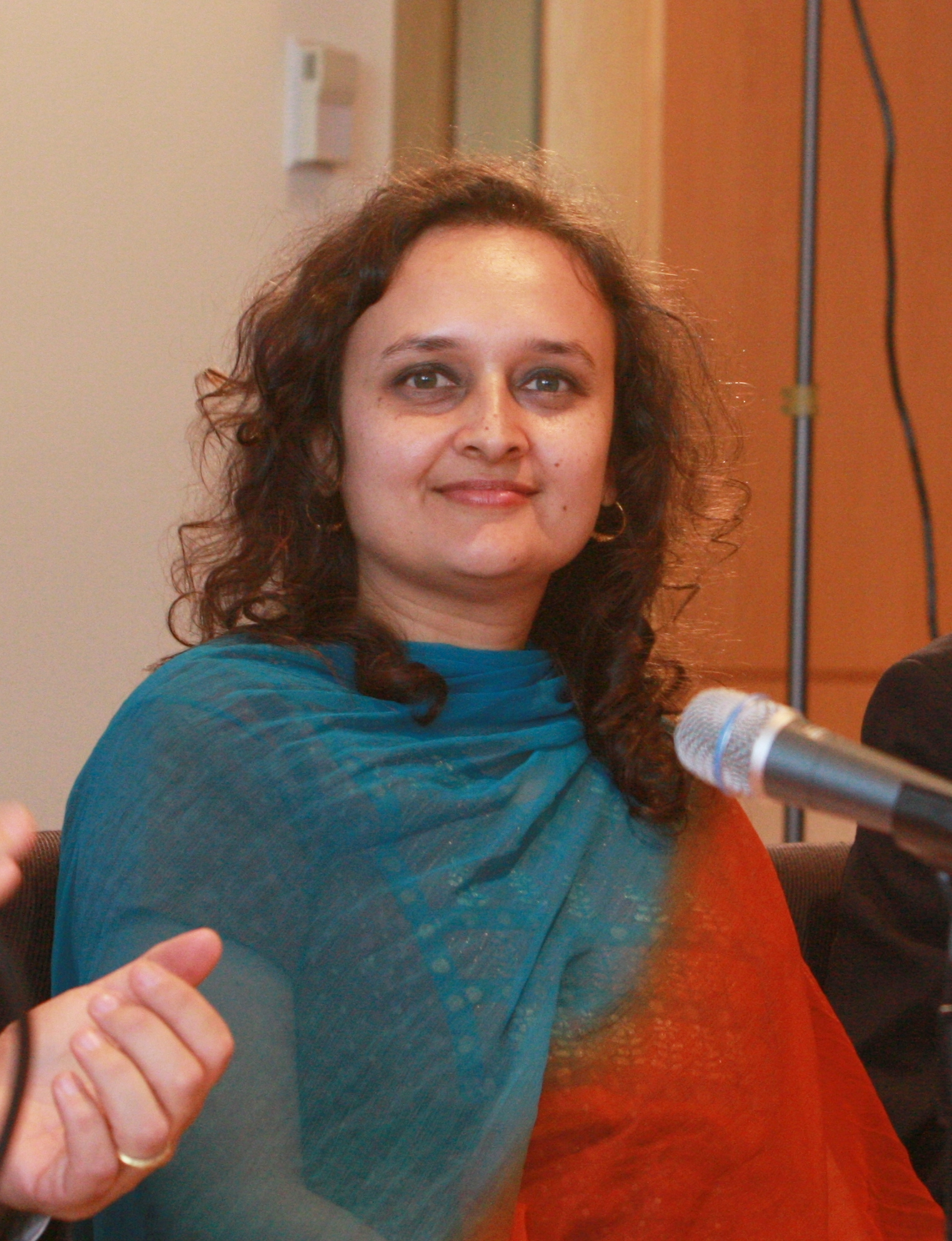 Bhairavi Desai, president of the National Taxi Workers Alliance taken on October 20, 2011